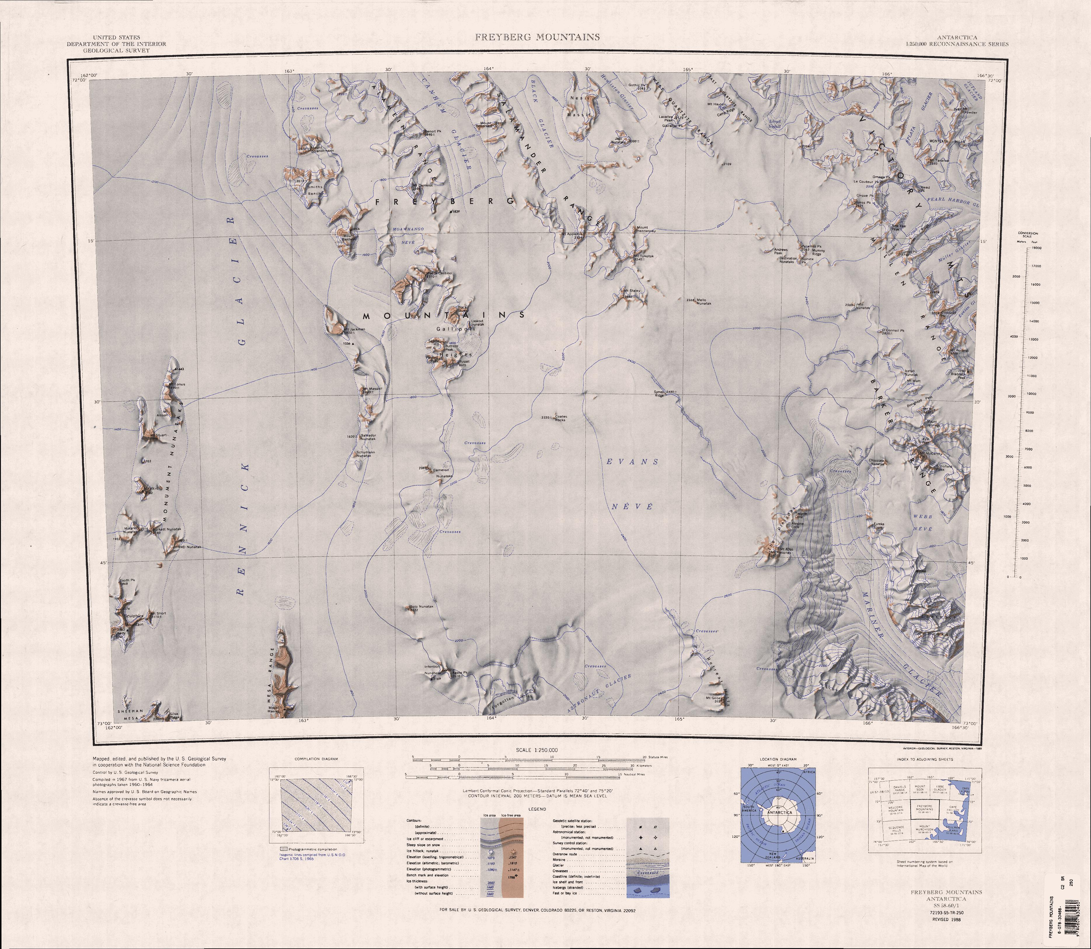 1:250,000-scale topographic reconnaissance map of the Freyberg Mountains area from 162°-163°30'E to 72°-73°S in Antarctica, including the Evans Névé. Mapped, edited and published by the U.S. Geological Survey in cooperation with the National Science Foundation.